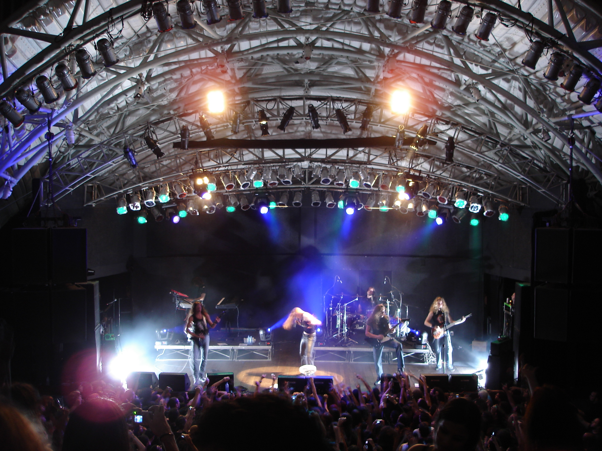 After Forever live at Circo Voador, Rio de Janeiro.